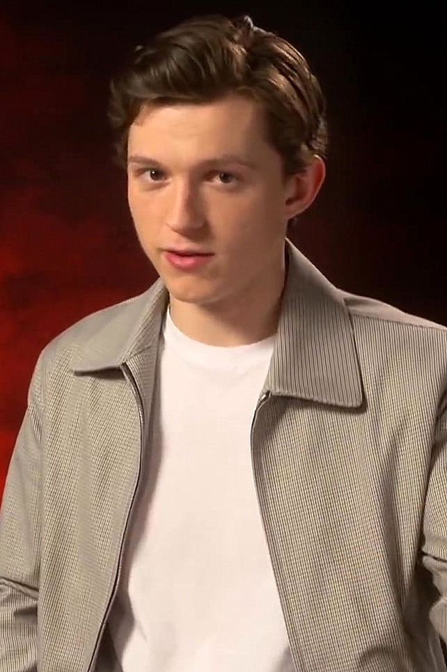 British actor Tom Holland giving interview to MTV.